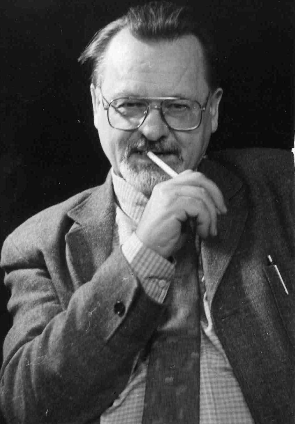 Vladimir V. Kolesov - professor of Faculty of Philology and Arts St.Petersburg State University